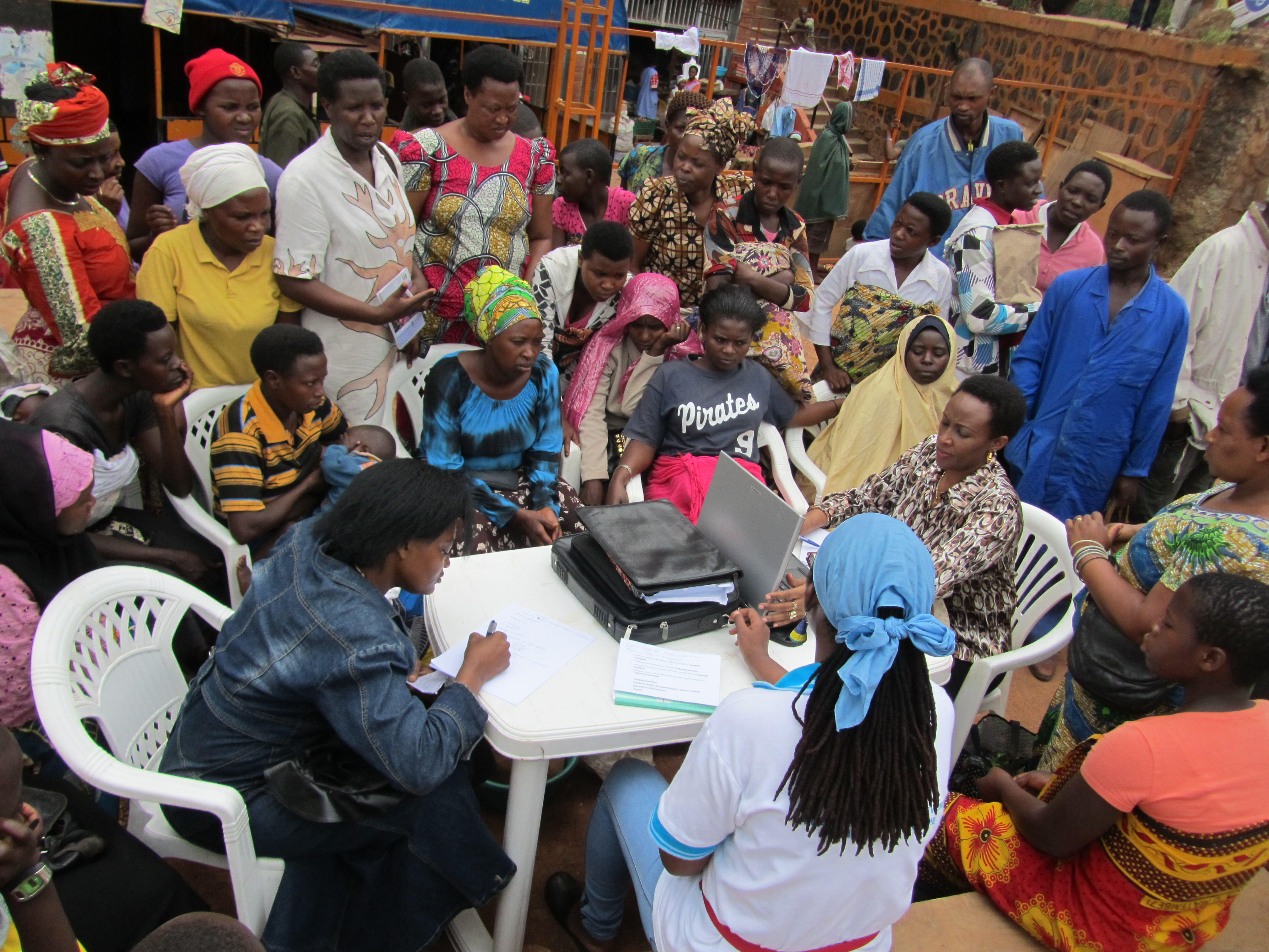 Click here for a UN video on the dialogue in Rwanda and the global conversation on post-2015